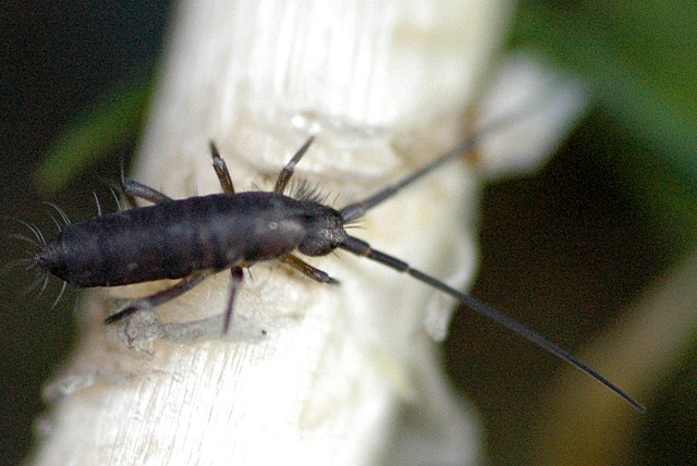 Pogonognathellus longicornis from Commanster, Belgian High Ardennes .